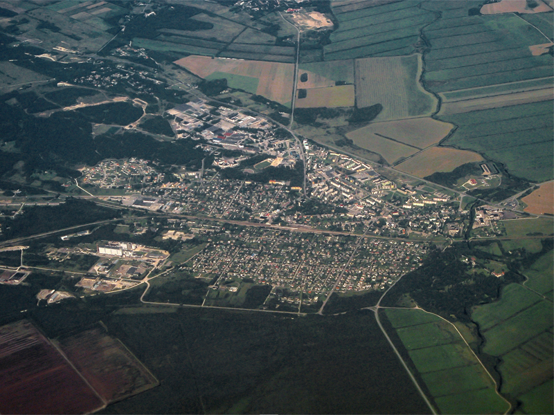 Keila View, Summer 2010